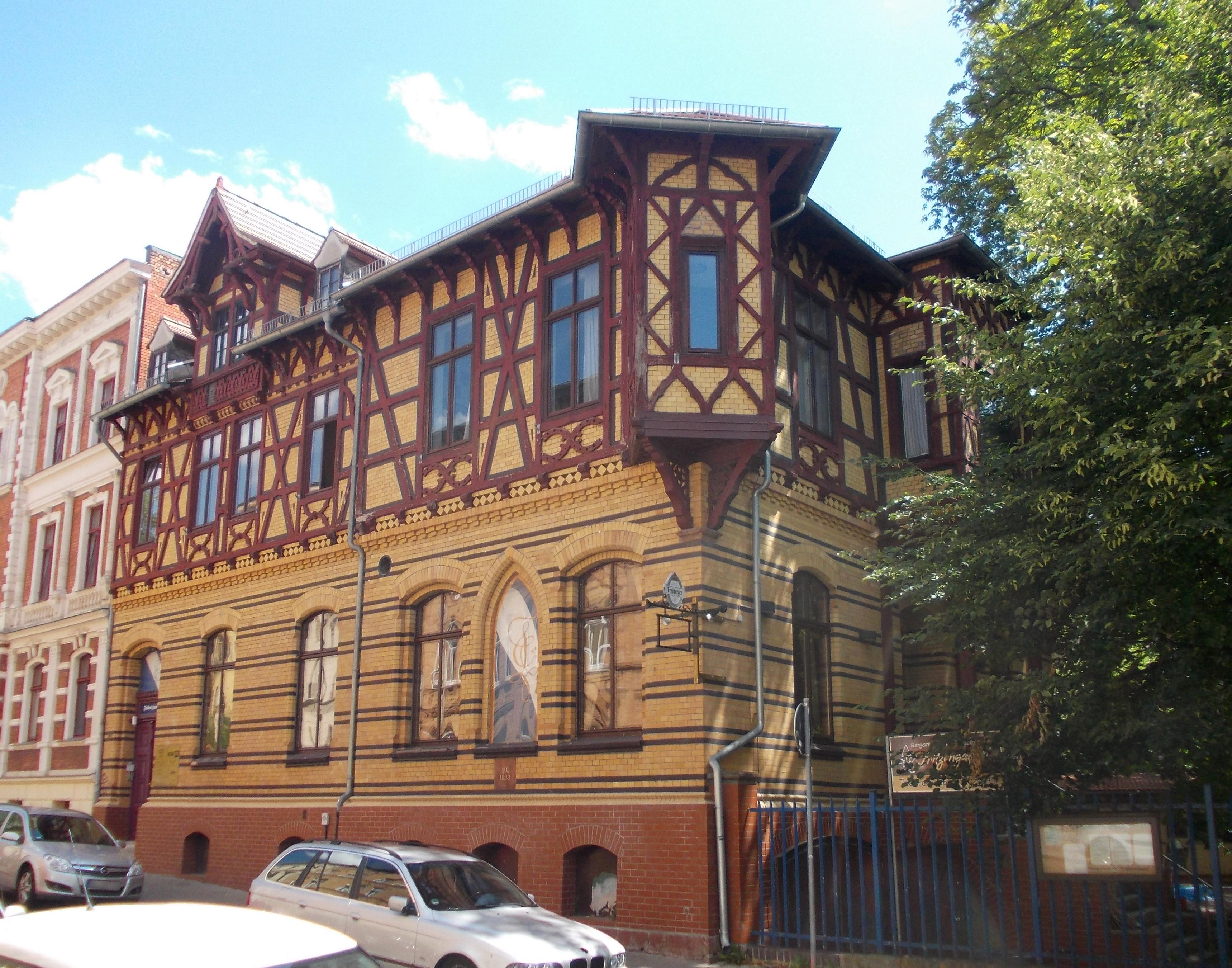 Fridericiana House (No. 14, Jägerplatz) in Halle/Saale (Saxony-Anhalt)